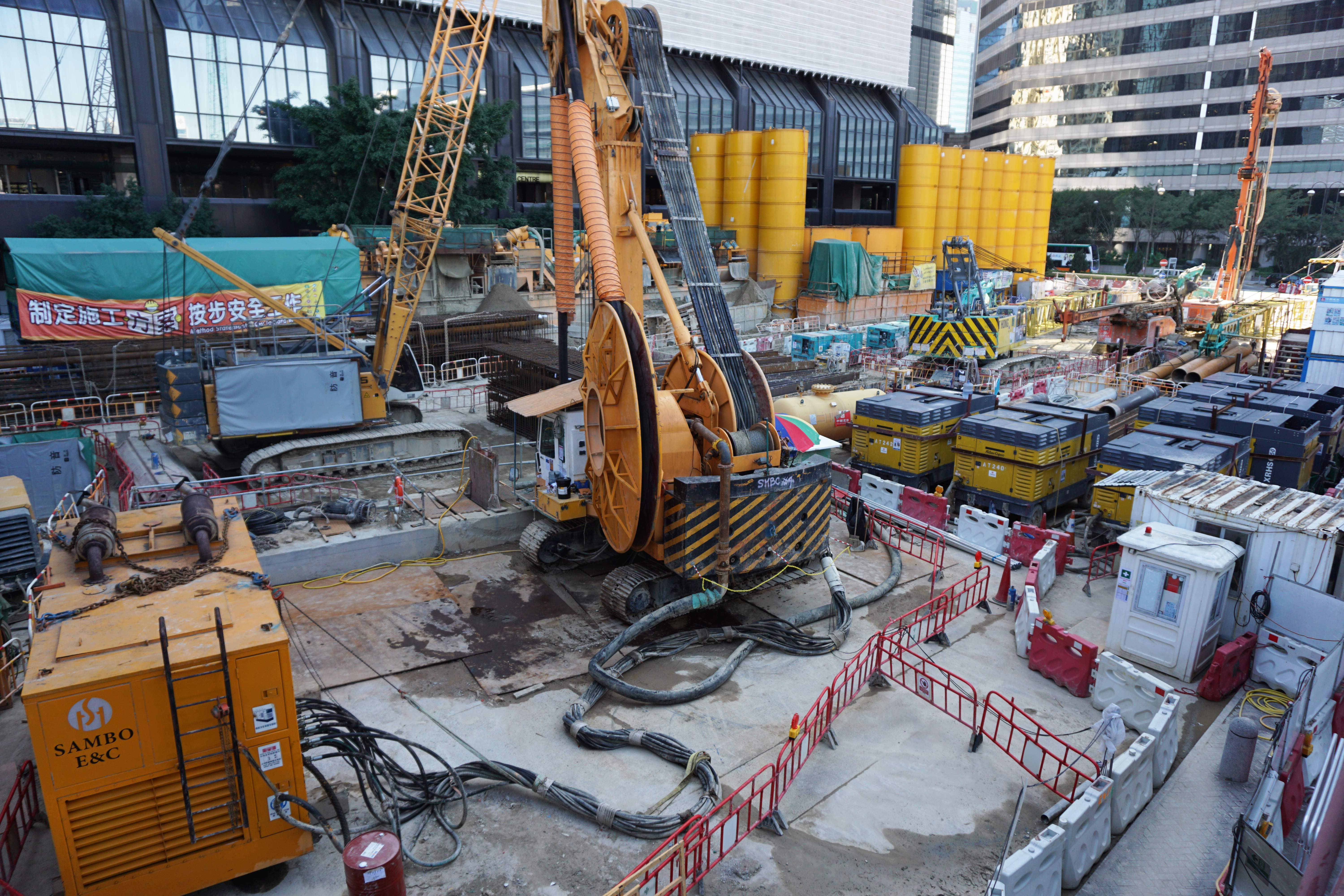 Exhibition Station in Wan Chai, Hong Kong.